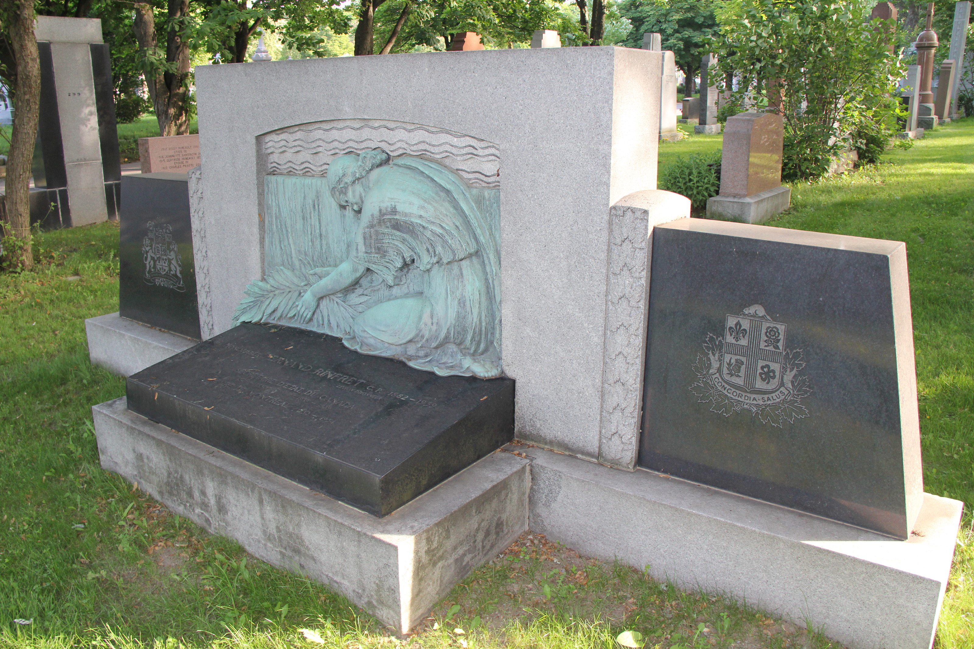 Fernand Rinfret’s tombstone (1882-1939), Notre-Dame-des-Neiges Cemetery (B301), Montreal.